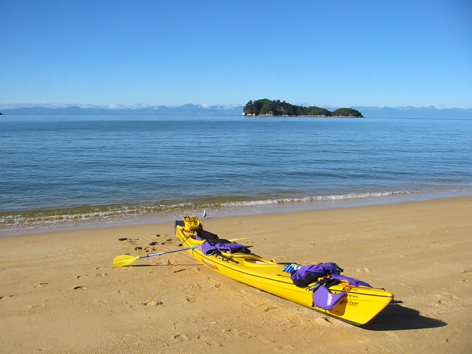 Sea kayaking the Abel Tasman National Park, New Zealand. Fisherman Island.